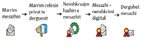 Signed Data - S/MIME